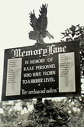 Port Moresby, New Guinea. "They shall not grow old As we that are left grow old: Age shall not weary them, Nor the years condemn. At the going down of sun And in the morning We will remember them." (RAAF Toc H Group Pt. Moresby 1942) A photograph of a sign erected by the RAAF Toc H group in Port Moresby to commemorate those killed. The sign with an eagle on top says "Memory Lane In memory of R.A.A.F personnel who have flown to a higher level 'Per ardua ad astra'", and lists the names of those killed: J. F. Jackson, F. C. Maurmer (?), H. Bower, O. J. Channon, Reid, Sloan, E. J. O'Donnell, A. J. Davenport, C. J. Matheson, W. Cowie, Devine, J. D. Dally, J. C. Clark, L. J. Hartley, E. C. Morrison, Sidey, A. W. Magee, N. L. Ernst, G. R. Peterson, J. F. Lymath, L. E. Lowe, F. Foers, Beitz. Padre P. Sands included the verse which accompanies this photograph in an album given to LAC Frank Lansdowne, a member of the Moresby Microbes, now held in the Private Records collection at the Australian War Memorial.